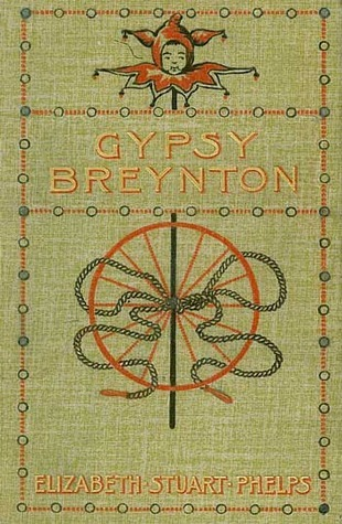 Cover of the 1894 Dodd, Mead & Company edition of Gypsy Breynton